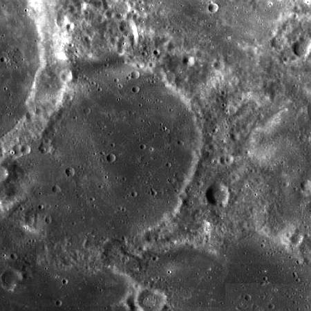 Ibn Yunus lunar crater LROC image, at the upper left corner of the image part of the Goddard crater is visible.